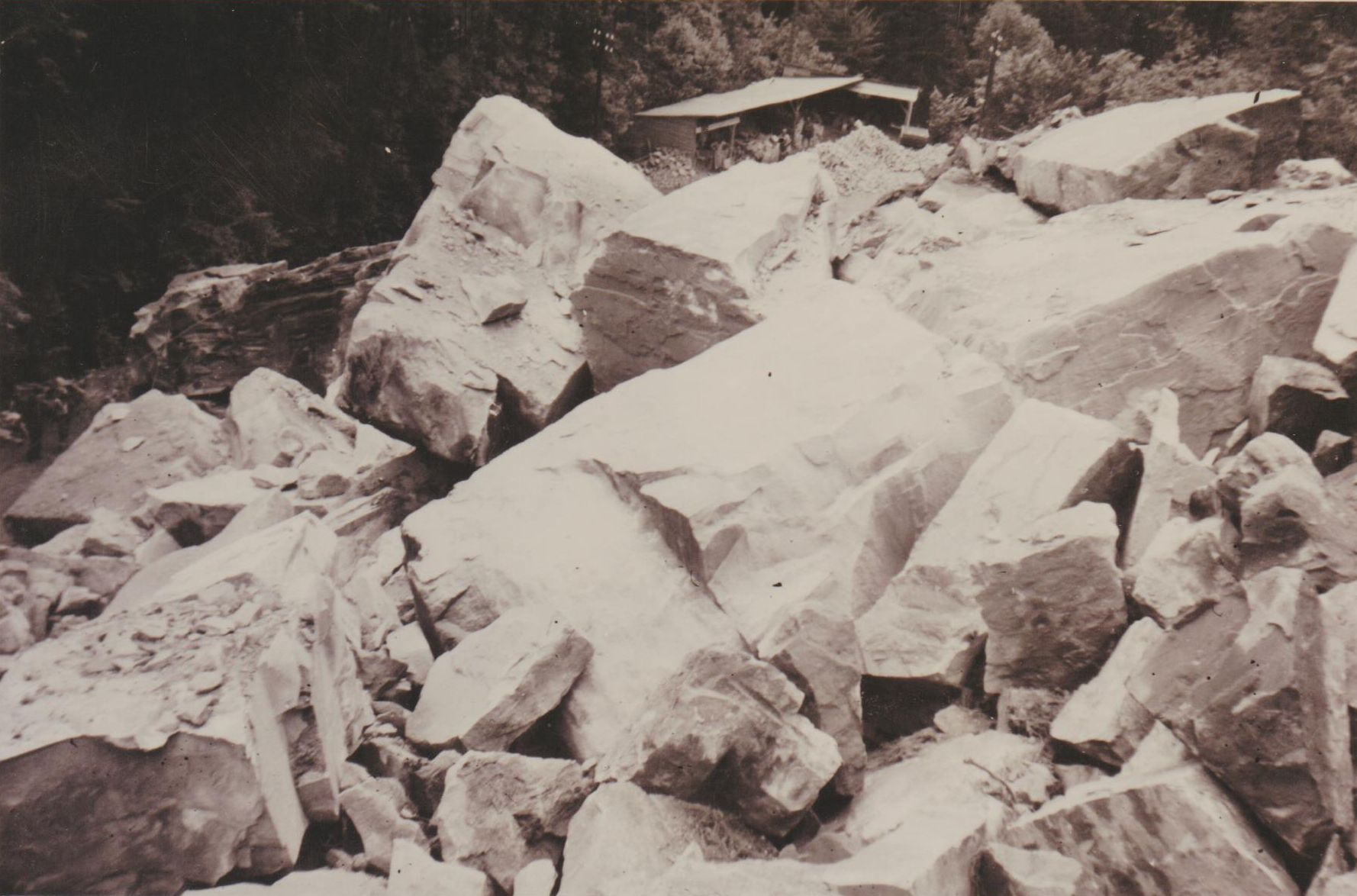 Hefel-Quarry in the Schwarzachtobel in Schwarzach, Vorarlberg, Österreich.